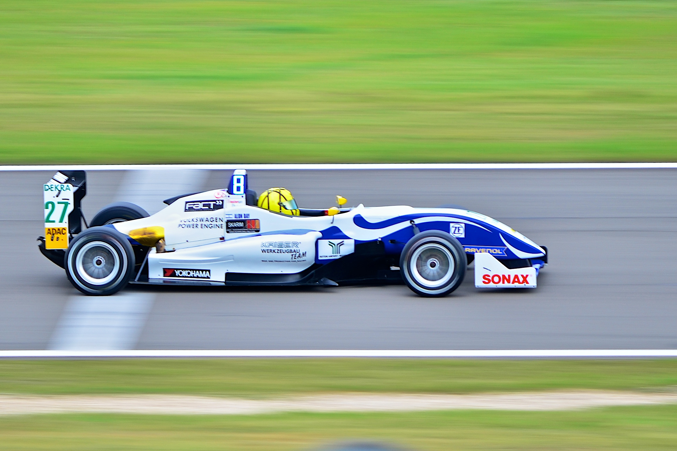 ATS Formula 3 Cup Racecar, Driver: Alon Day